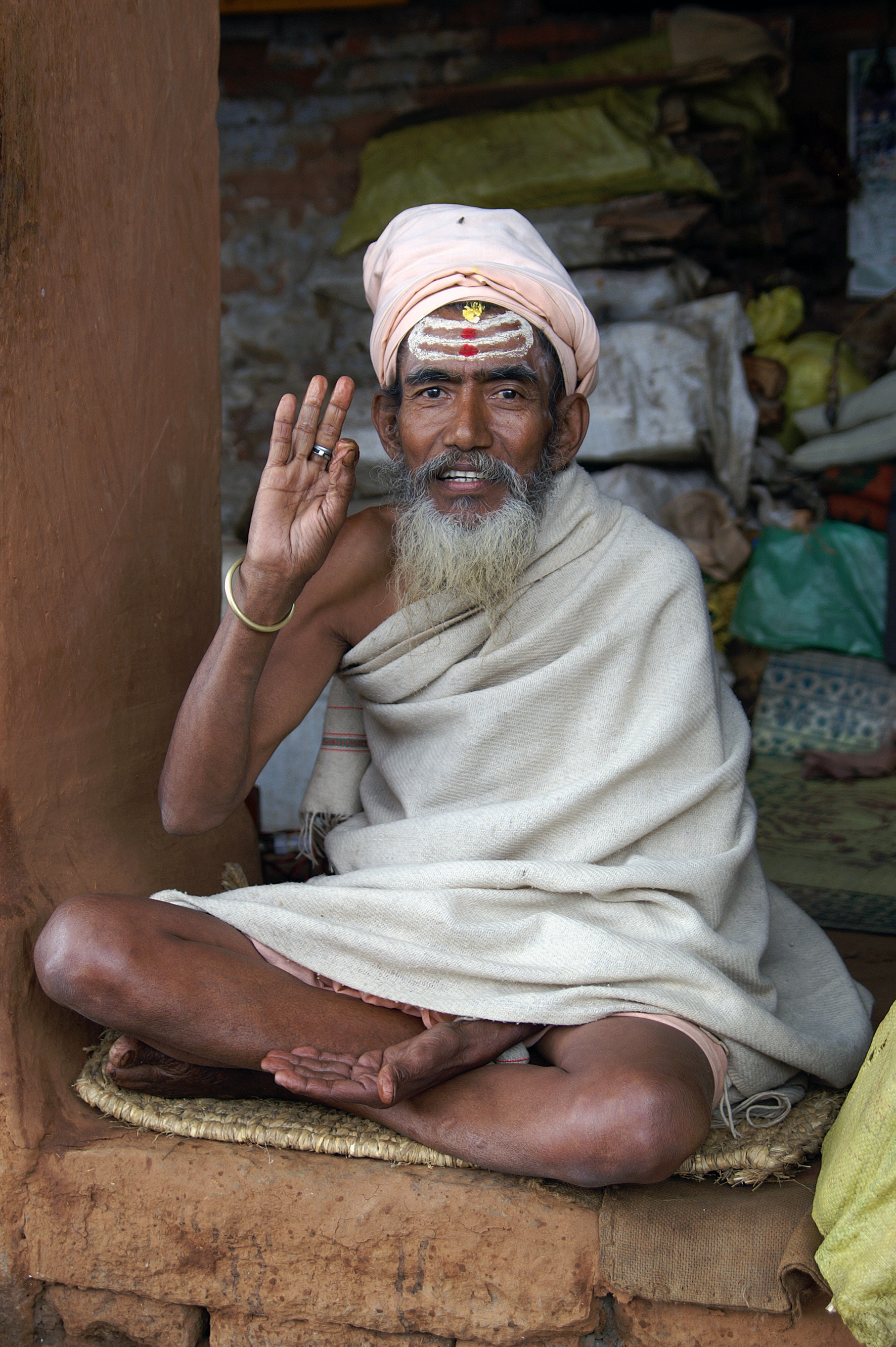 Sadhu (Holy Man) at Pashupatinath temple in Kathmandu. Taken by: Peter Akkermans, Nepal May 2007 Website: flickr Tags Pashupatinath Sadhu